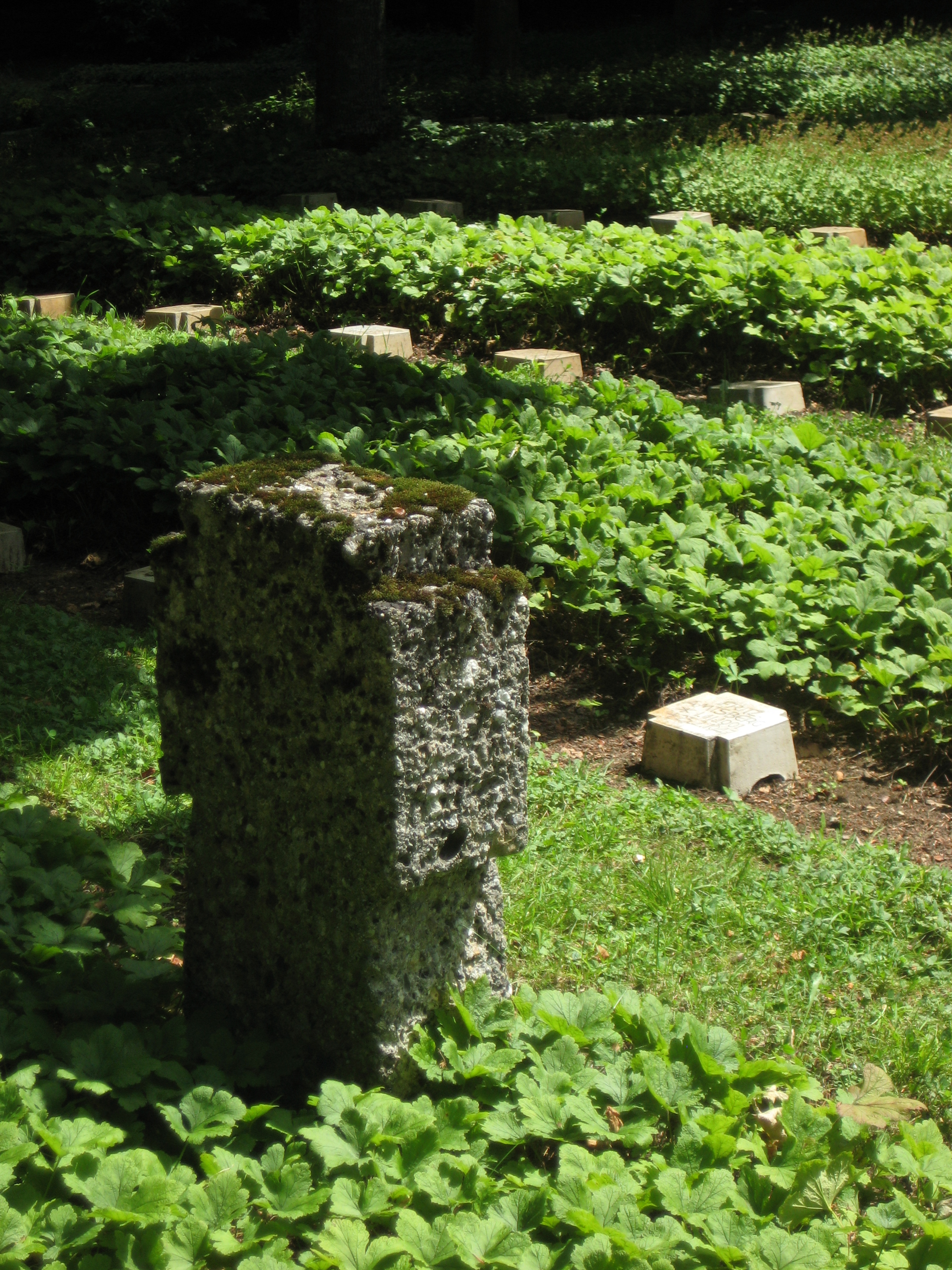 World War II cemetery in Sonthofen